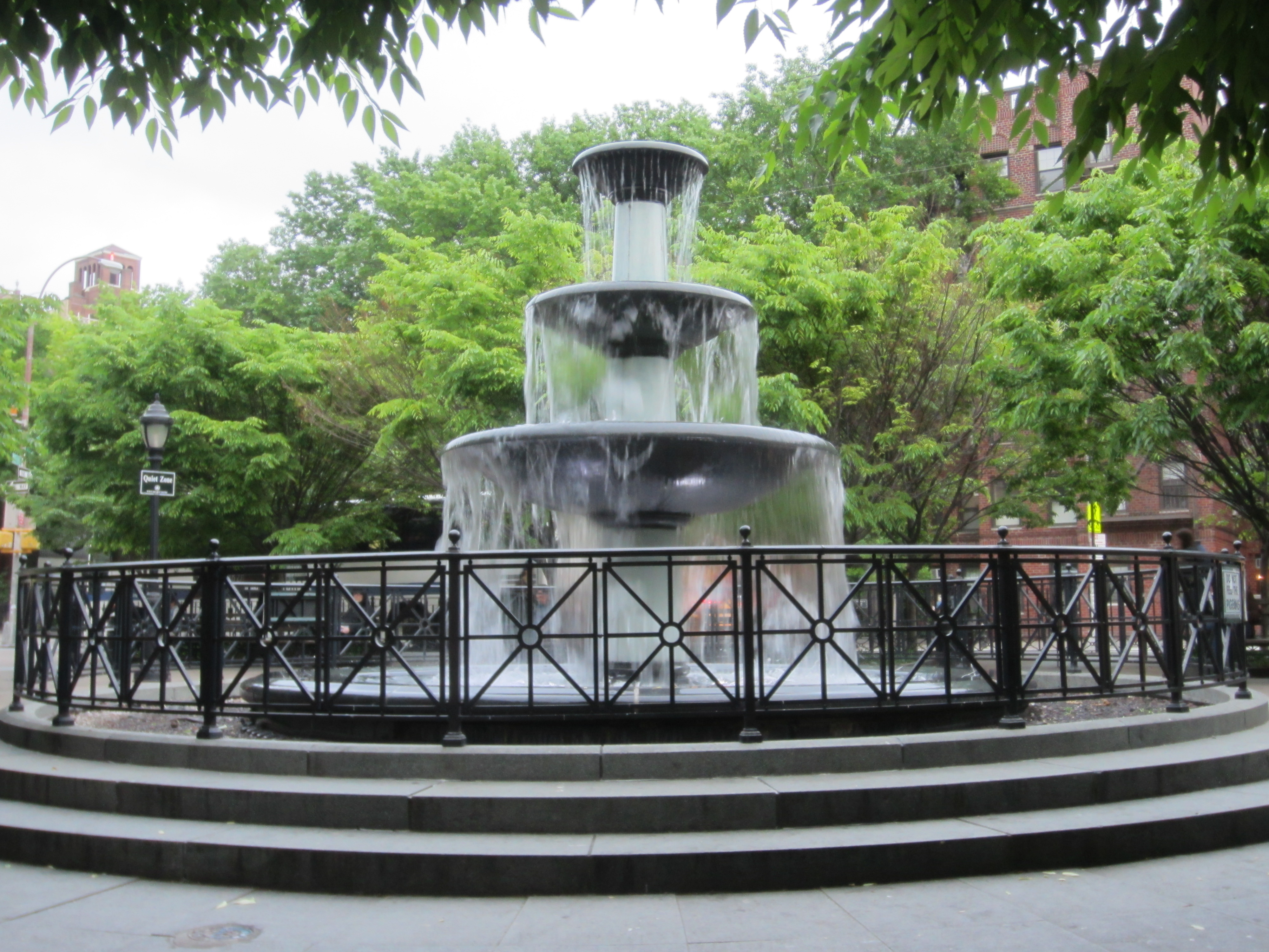 Father Demo Square, New York City (May 2014)